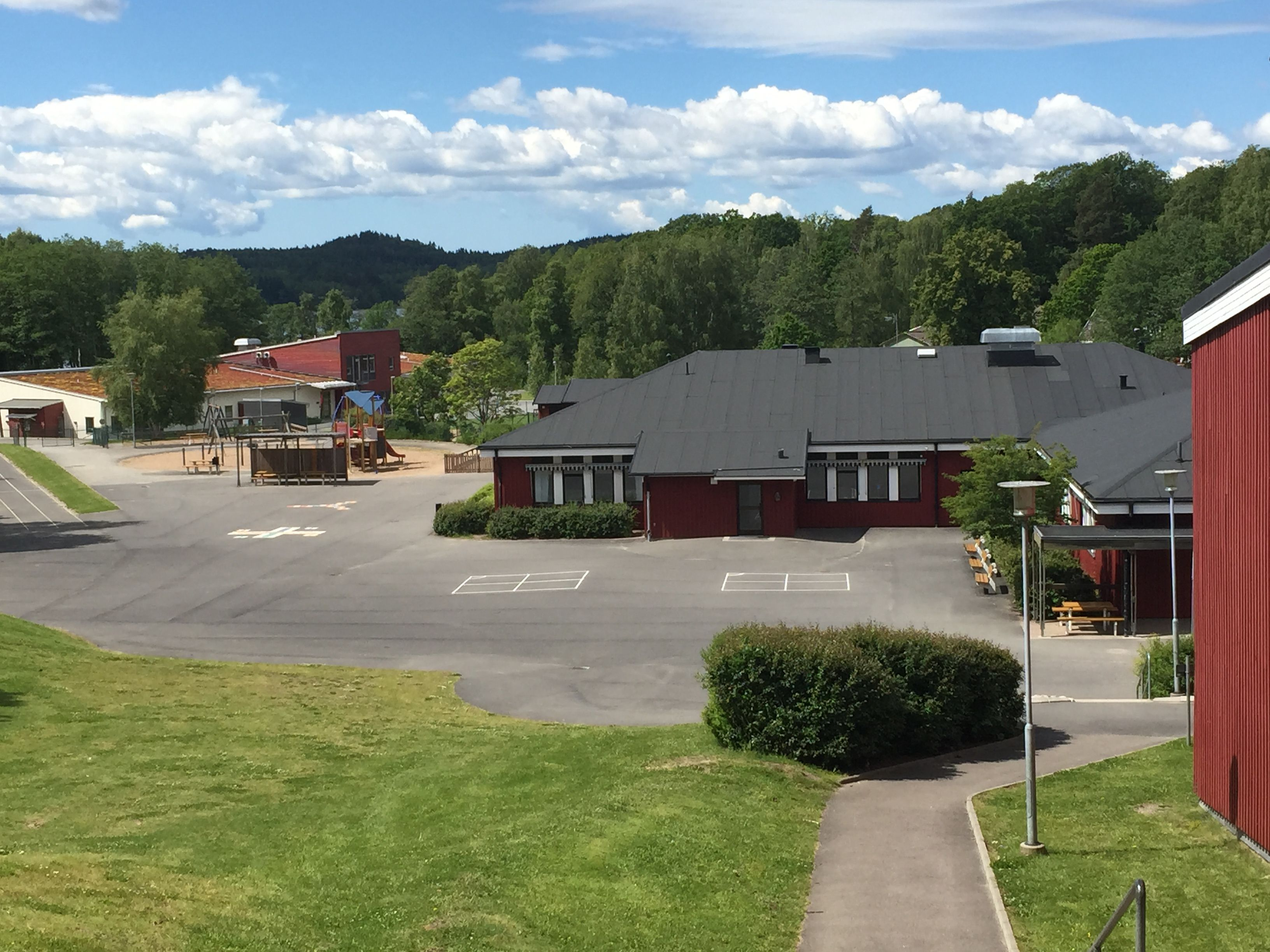 Ingared School